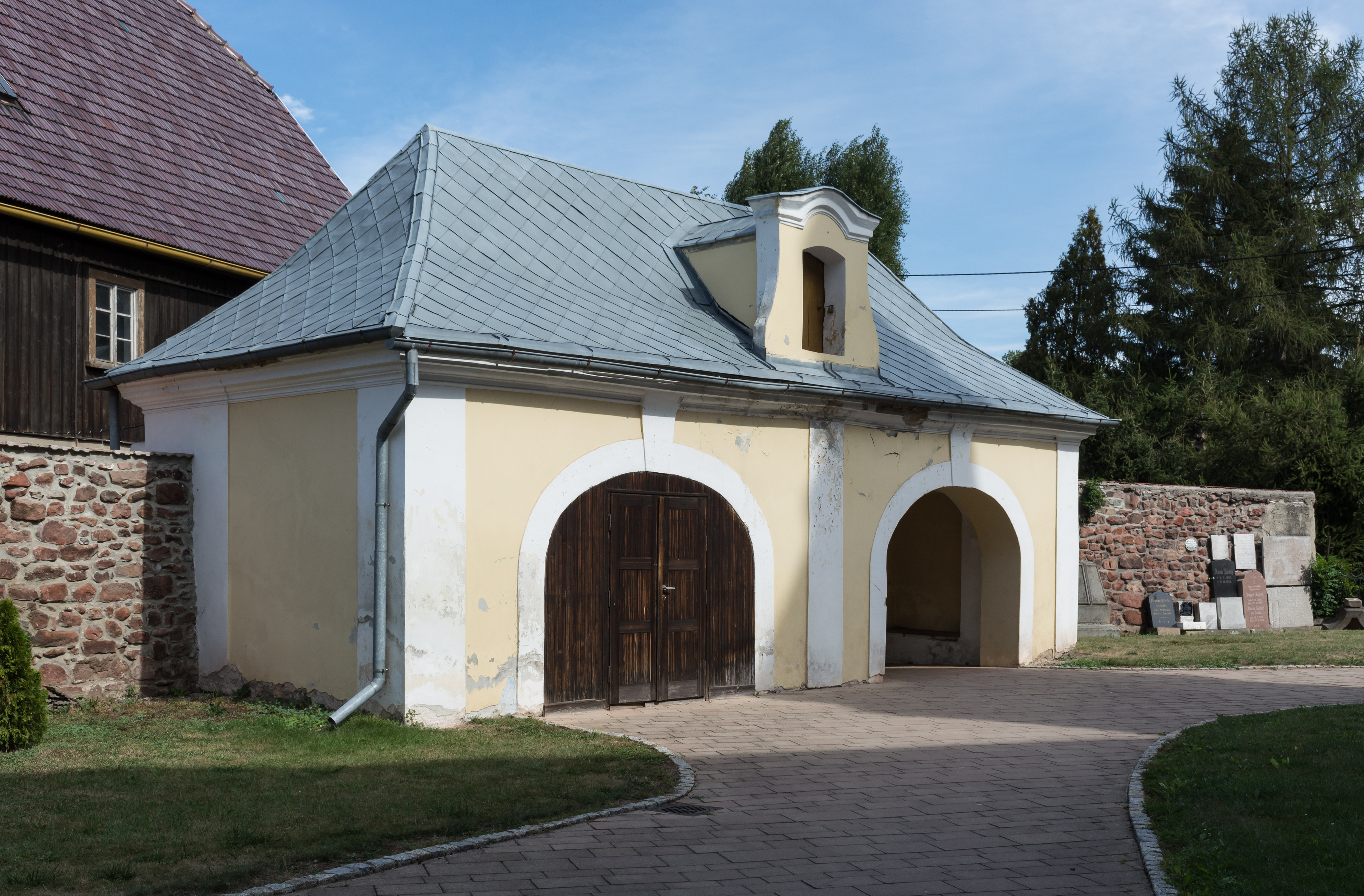 Saint Mary Magdalene Church in Ścinawka Średnia